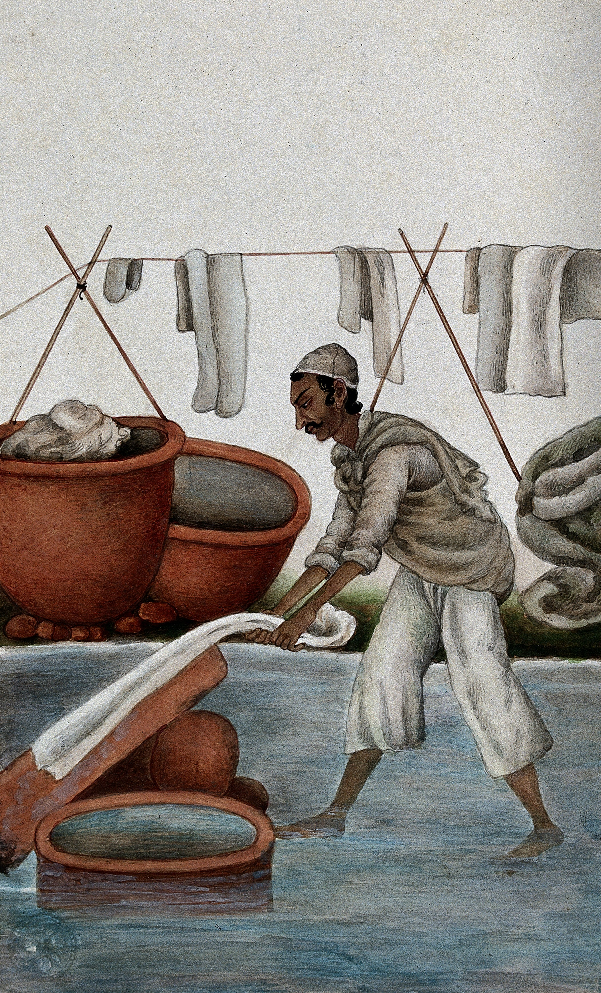 A washer man (dhobi wallah) in Delhi Iconographic Collections Keywords: Washing; Occupations; India; Hygiene; Job; Occupation